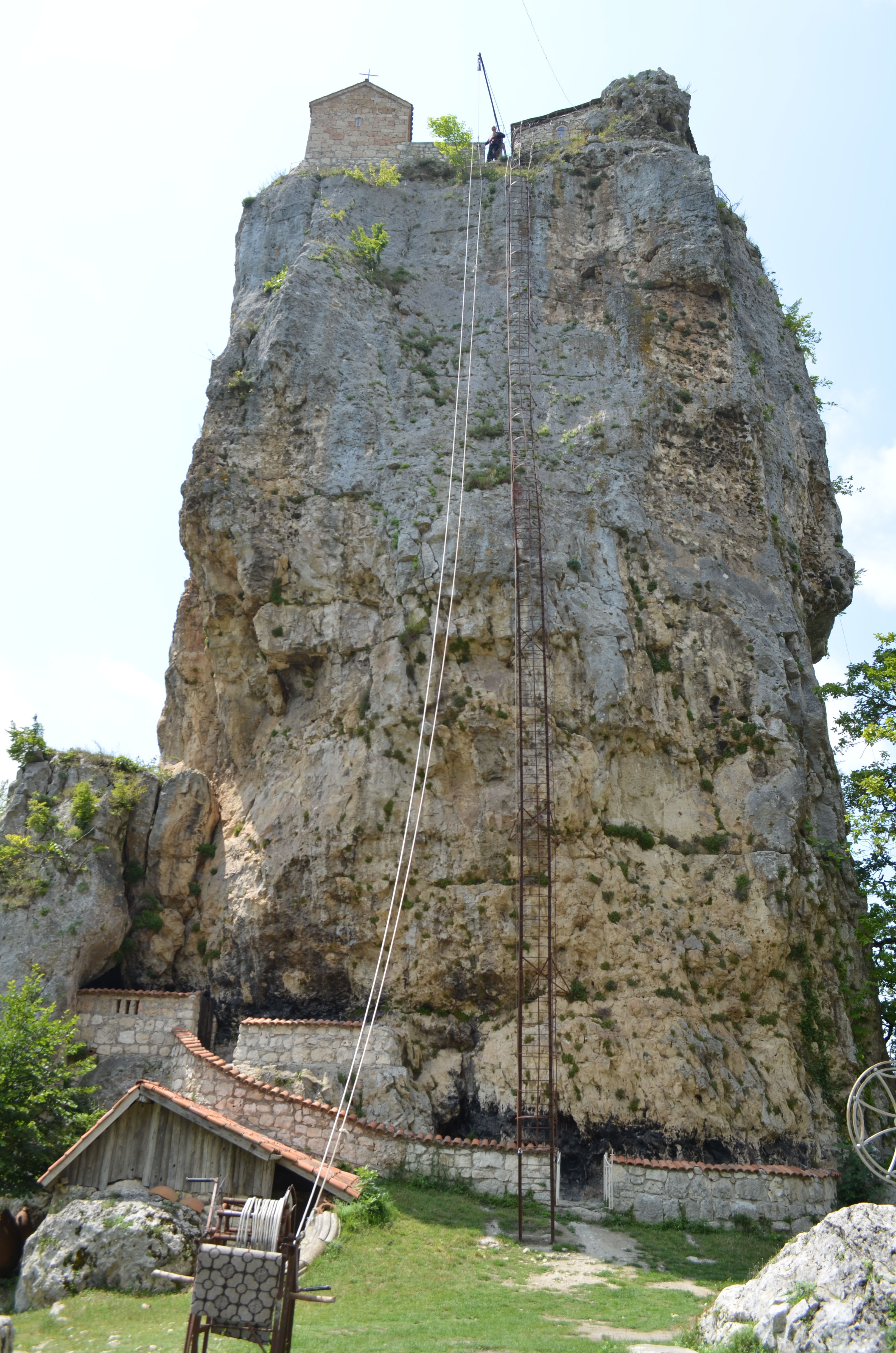 Eastern face of the Katskhi Pillar seen from its foot, note the person on top of the pillar, a semi-eremitic monk who lives up there